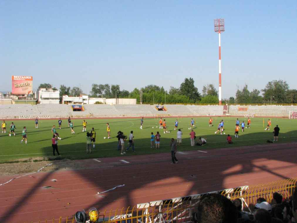 Alkazar Stadium in Larissa